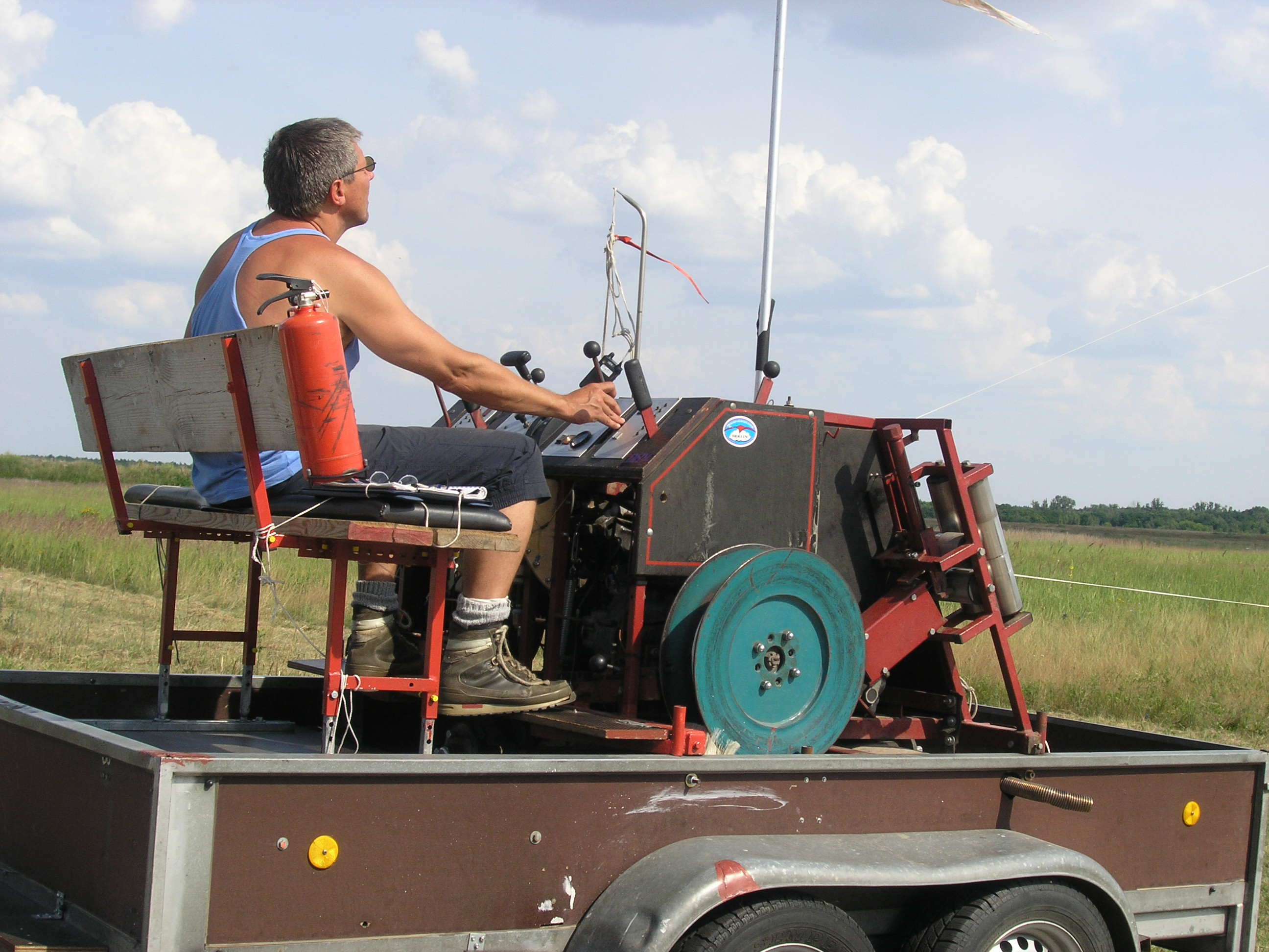 Operator of a stationary winch, launching a hang glider. Date: August 2005 Place: Altes Lager, Germany Photographer: Kai-Martin Knaak Copyright under GFDL granted by Kai-Martin Knaak (Wiki Commons category: "Air sports")